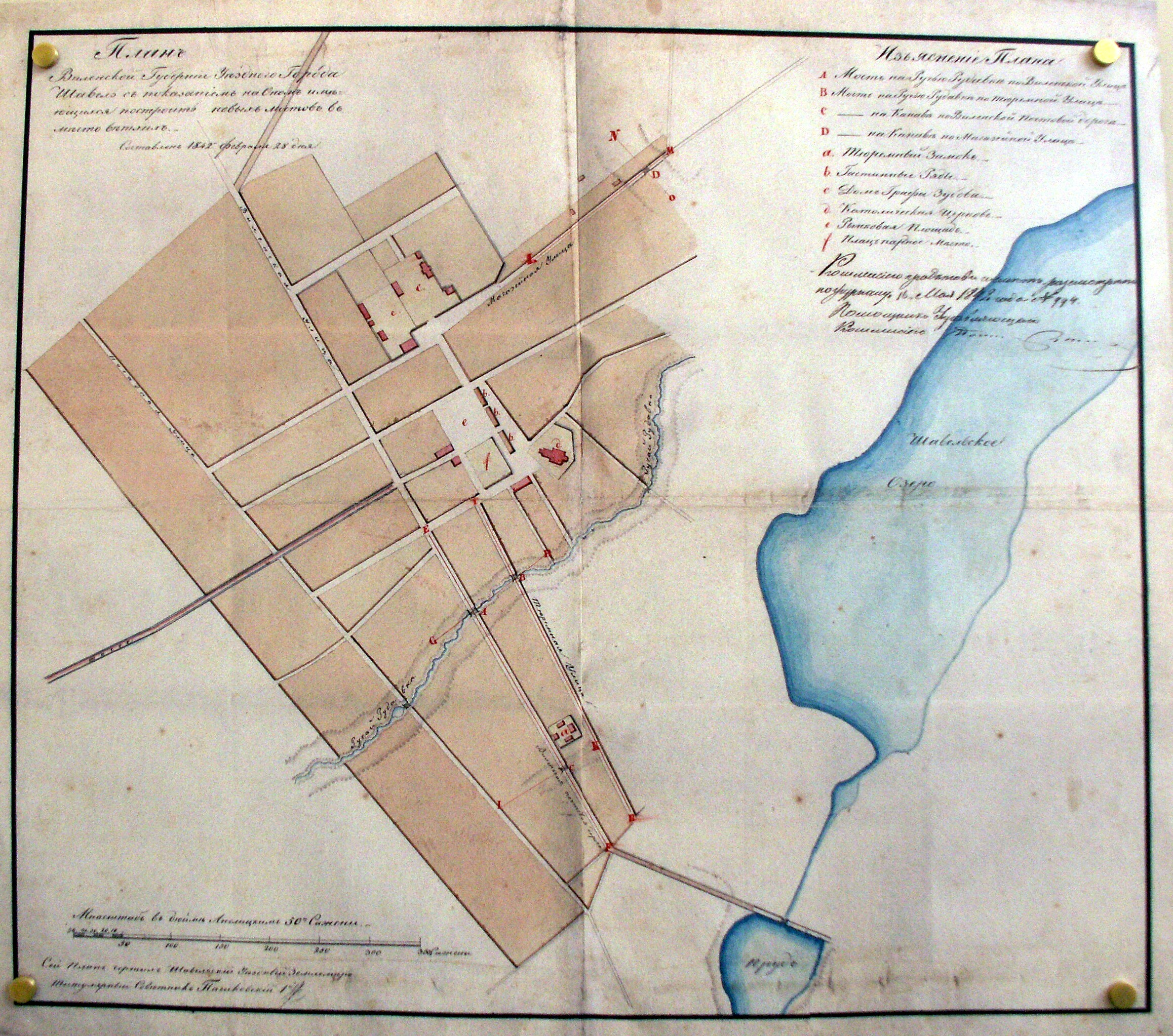 Plan of Šiauliai in 1849-05-16. Museum Aušra